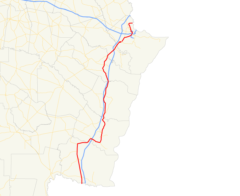 Map of Georgia State Route 25